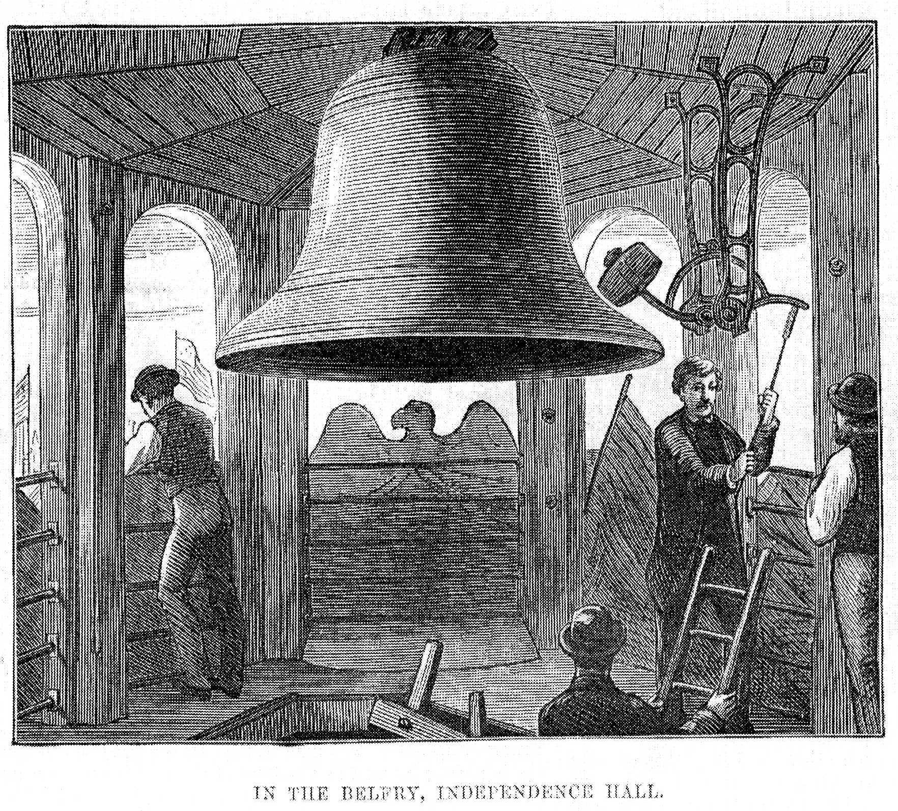 The Centennial Bell which replaced the Liberty Bell after it cracked. In the belfry, Independence Hall.